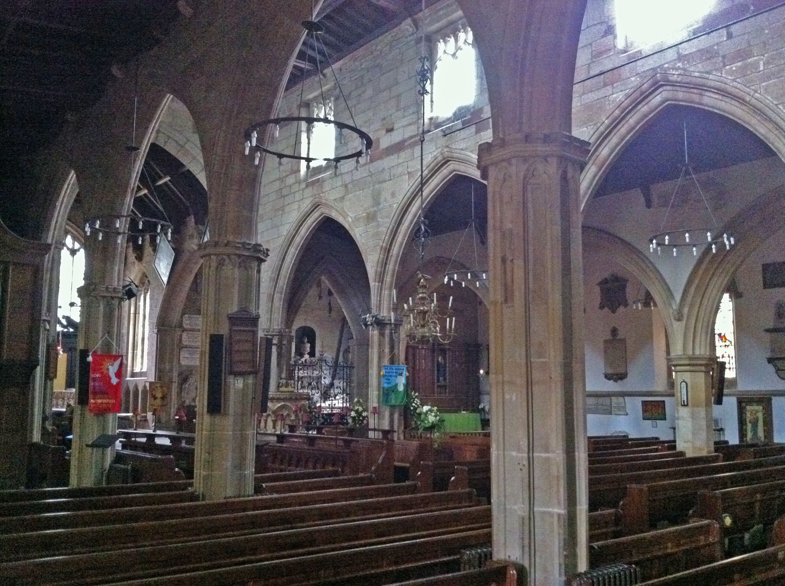 St Helen's Church, Ashby-de-la-Zouch